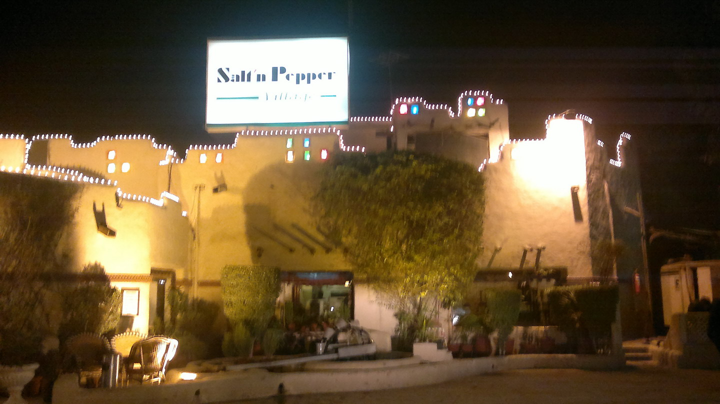 MM Alam Road 1